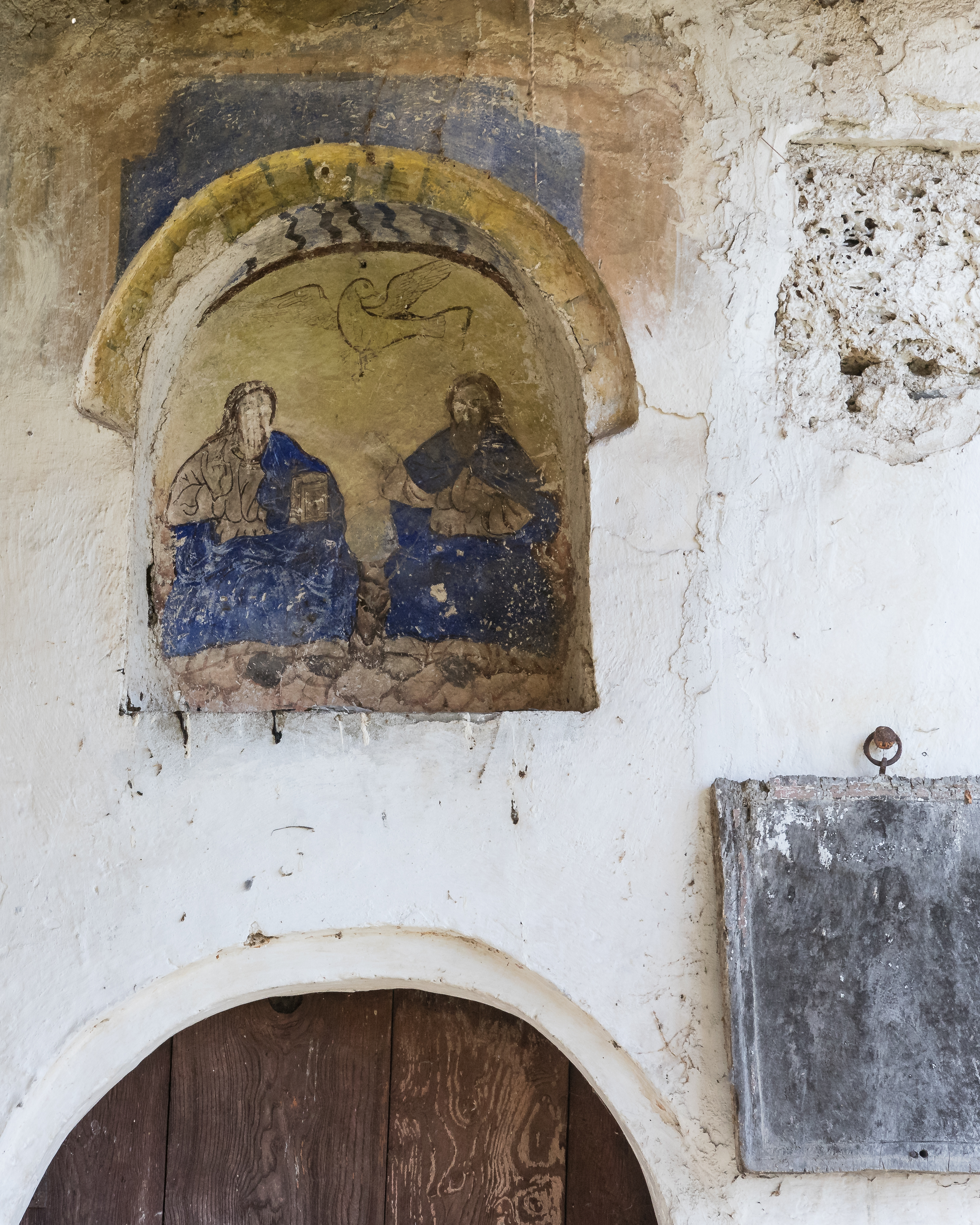 View of the Holy Trinity Church in the village Podles